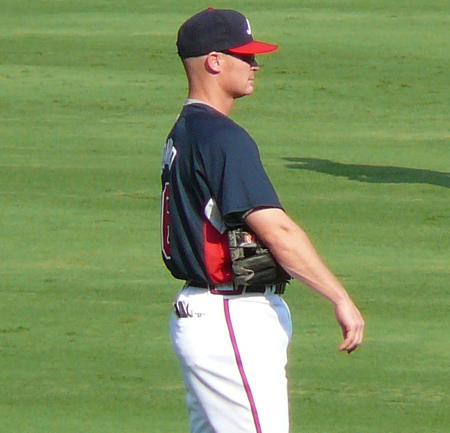 If used somewhere other than Wikipedia, Nelson, by name. 03:44, 20 September 2009 . . Chrisjnelson . . 450×433 (180 KB)